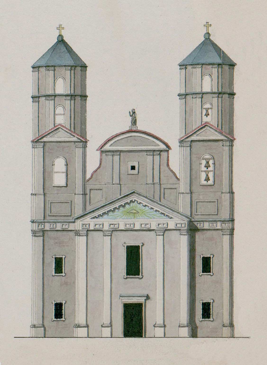 Non existent Dominican catholic church and cloister in Ušačy, Belarus